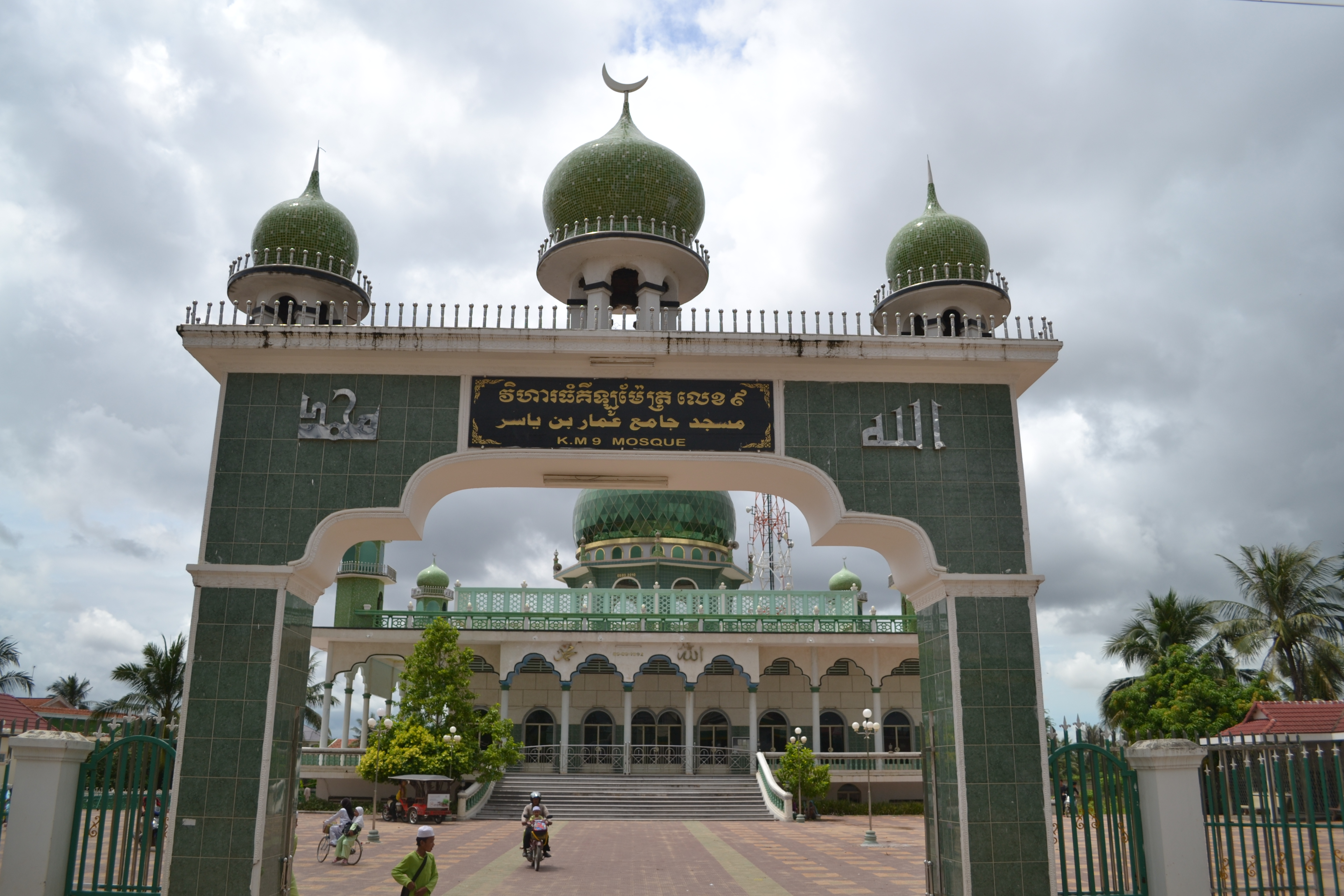 The entrance of KM9 Mosque